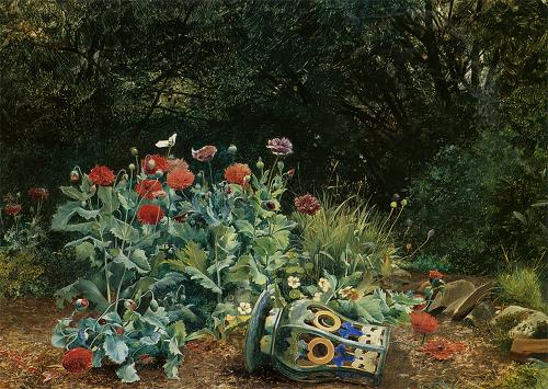 Summer flowers in a quiet corner of the garden